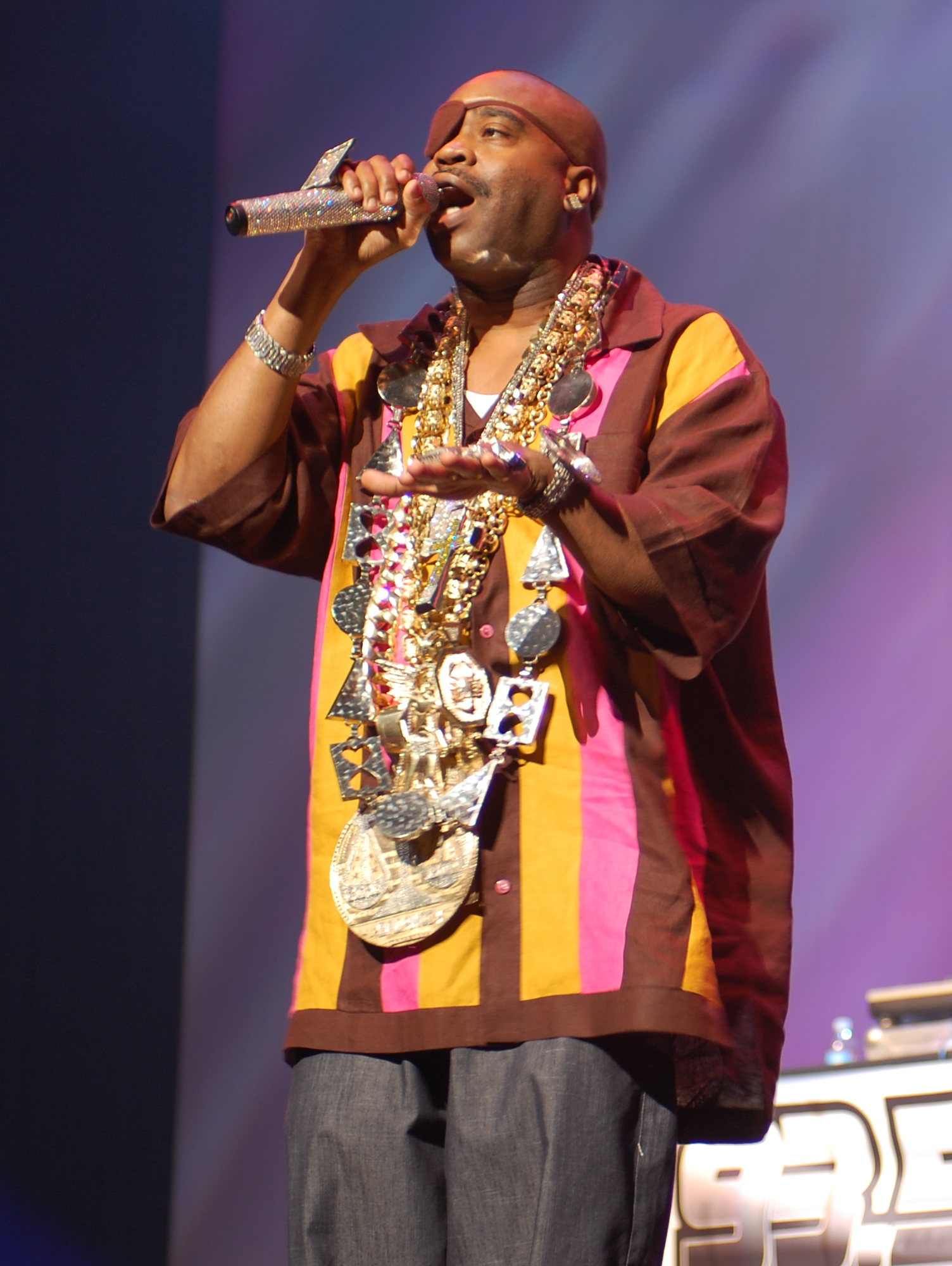 Slick Rick performing with Doug E. Fresh live in 2009.